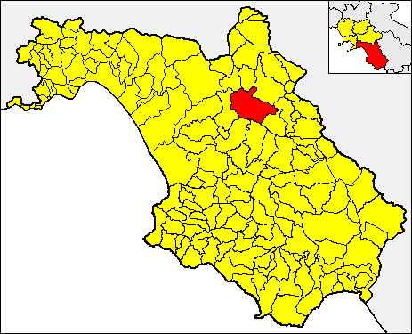 Locator map of the municipality of Sicignano degli Alburni (red) within the Province of Salerno